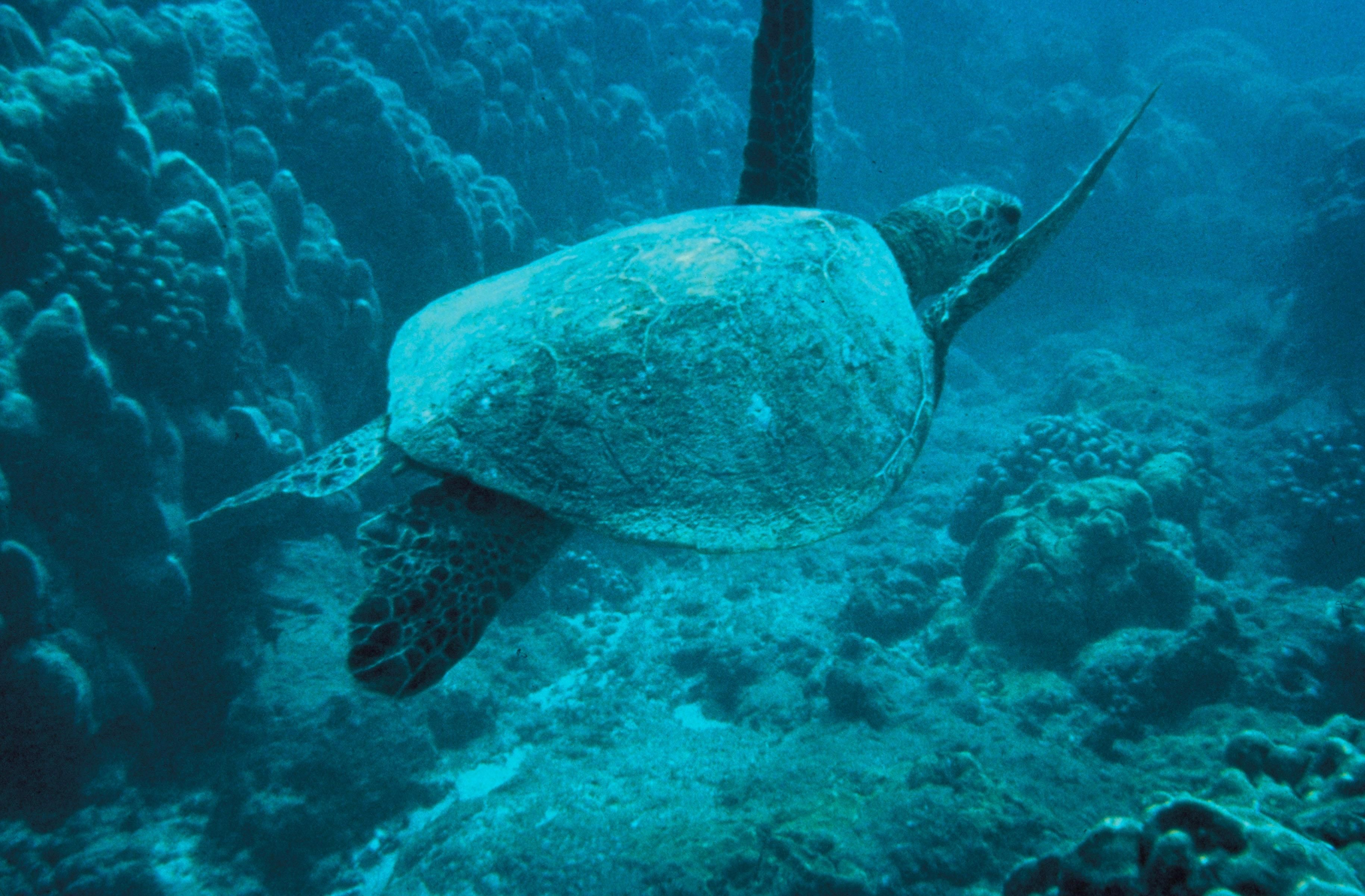 Image title: Green sea turtle Image from Public domain images website